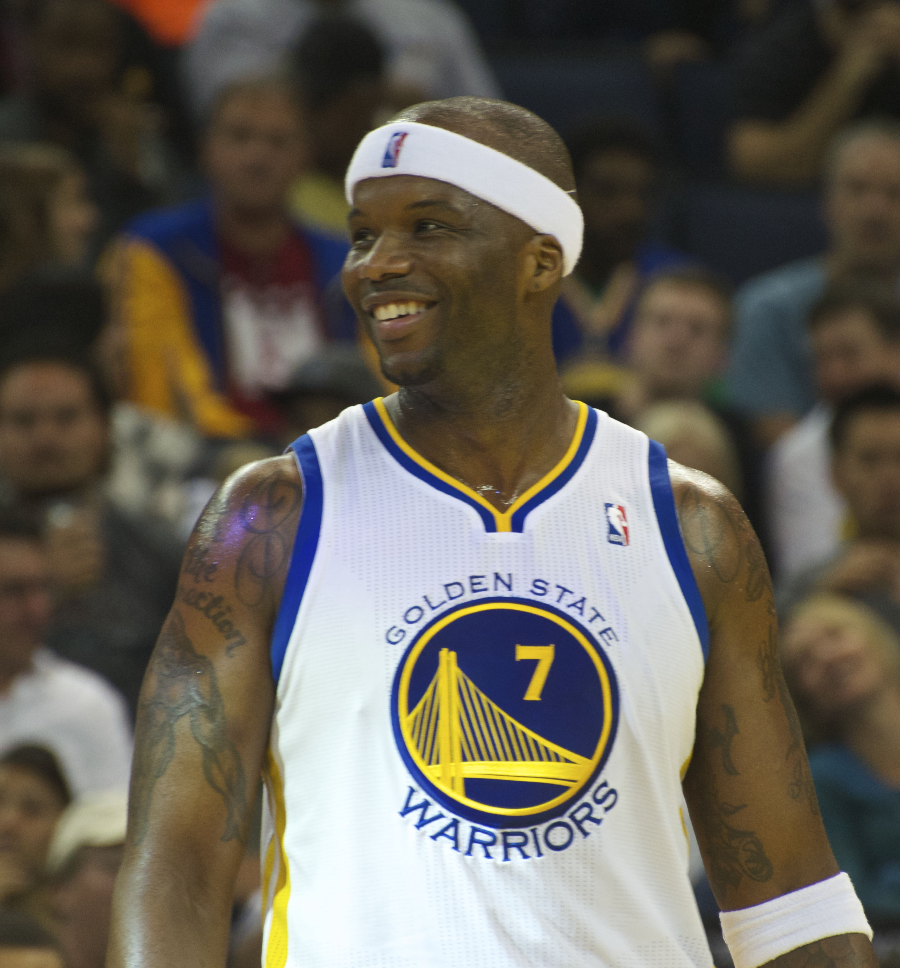 Jermaine O'Neal, 2014-04-06, Warriors vs Jazz, Oracle Arena, Oakland California